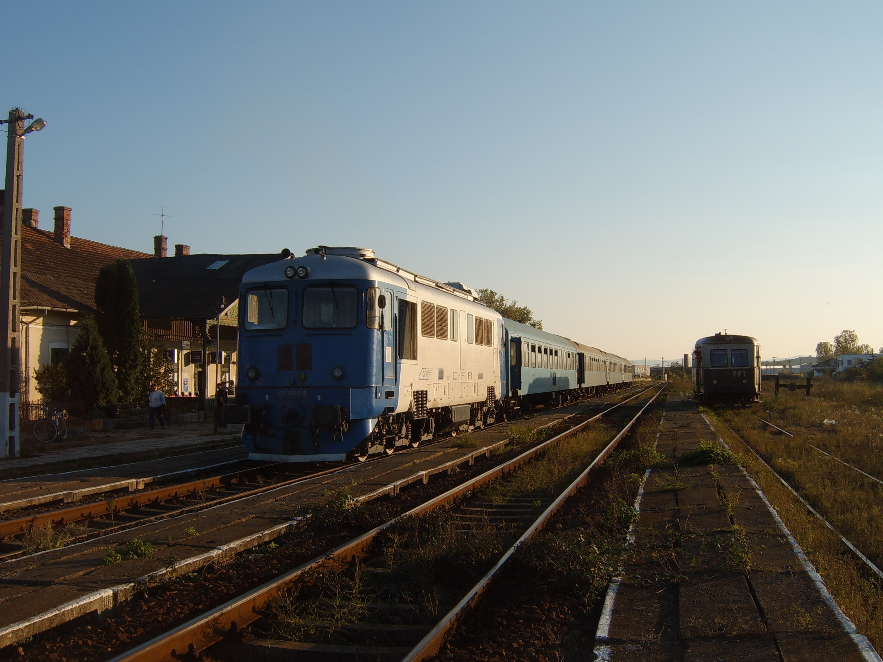 60.1097 at Ineu on train P3129, 16:10 Arad to Brad on 8 October 2007. On the right, 77.0991 is employed on the short branch to Cermei.